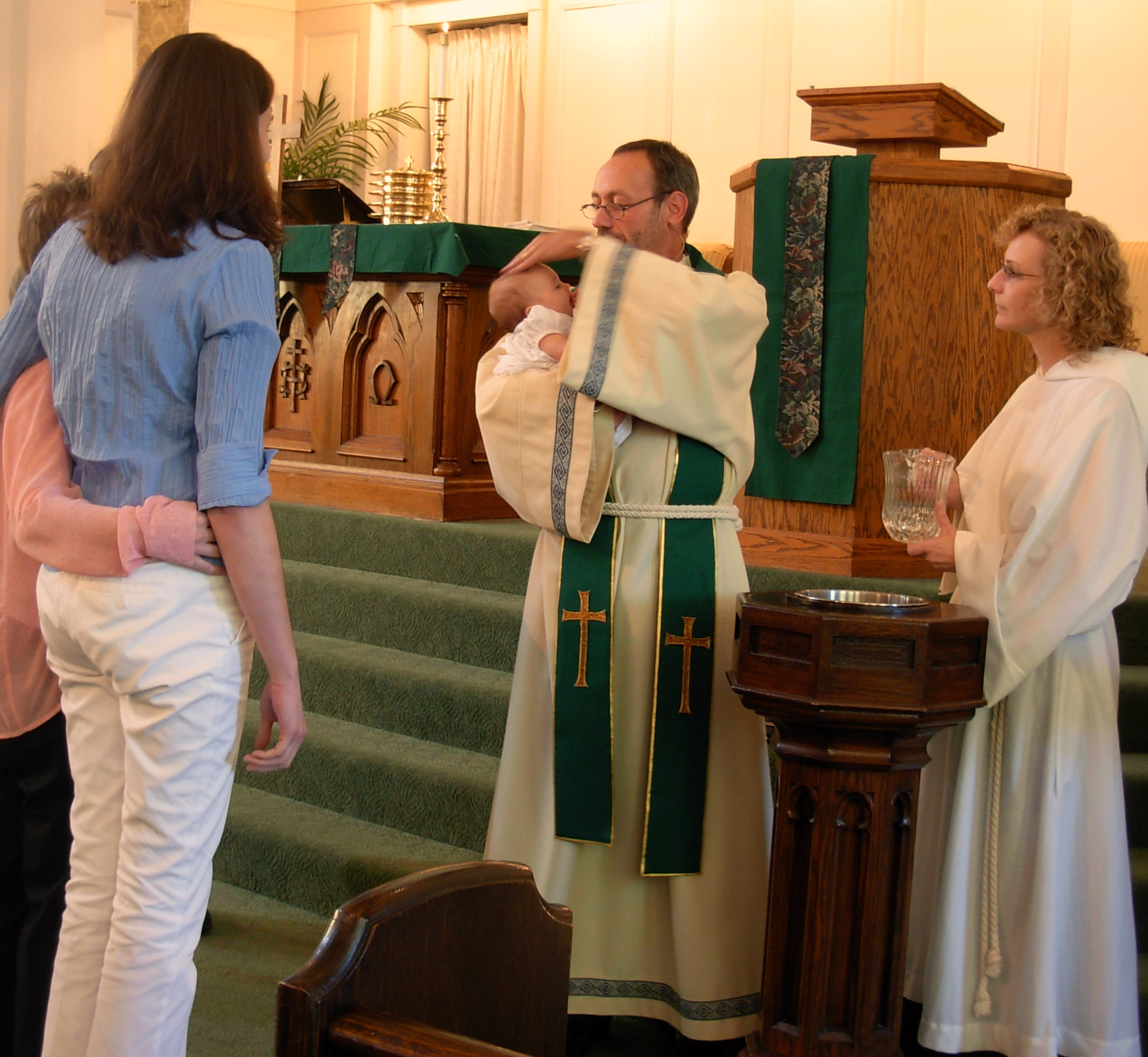 Infant baptism in the Metropolitan Community Church